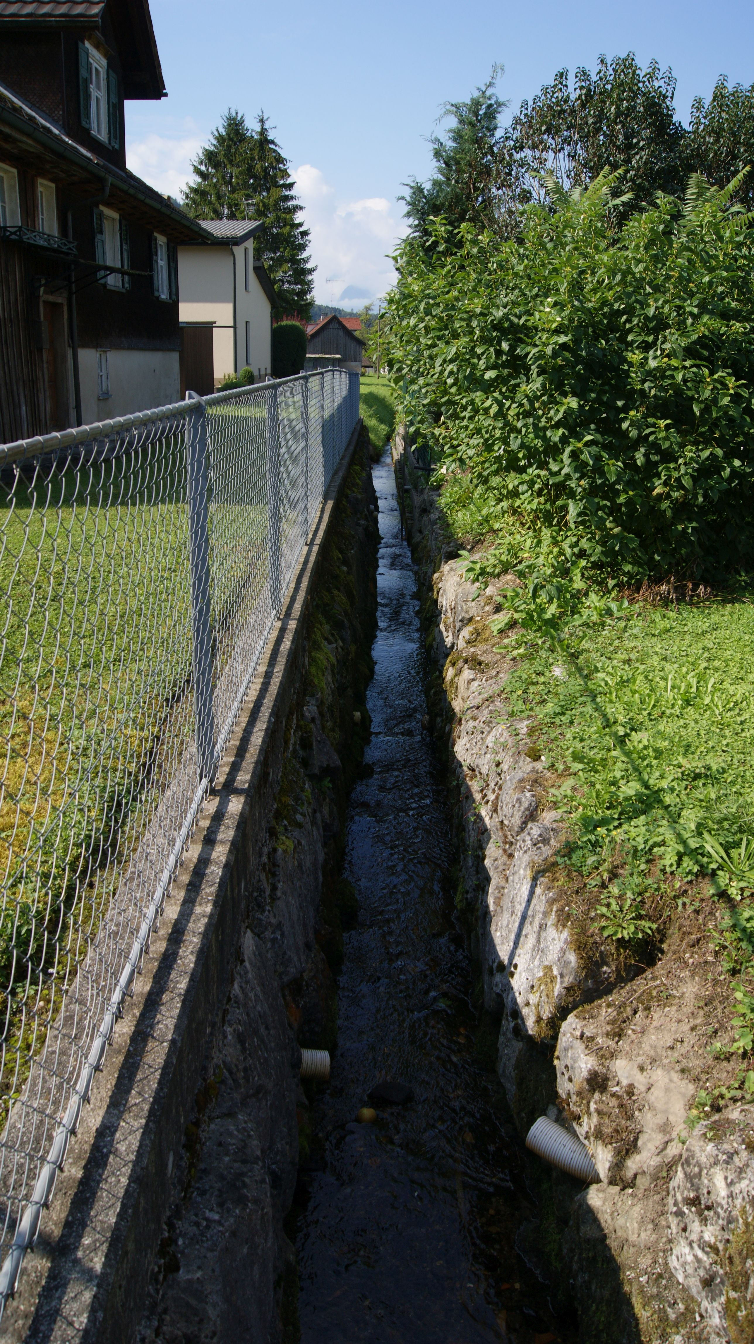 Local centre "Schwefel" in Hohenems, Vorarlberg, Austria. "Sulphurditch", view from Jägerstrasse 13.